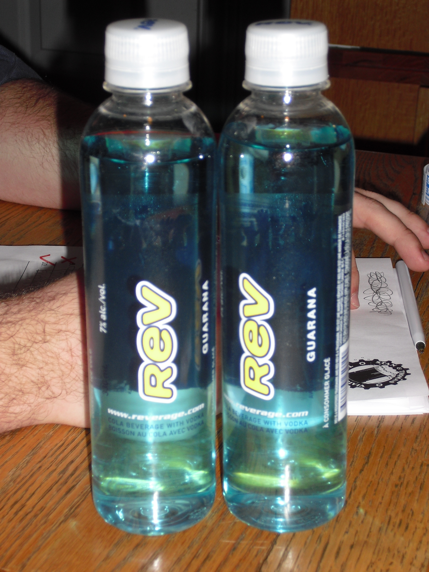 Rev Drink